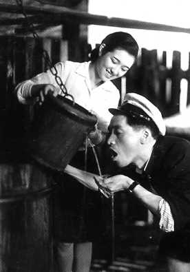 Hideko Takamine in 1941 Japanese movie Hideko no Shasho-san(Hideko the Bus-Conductor).